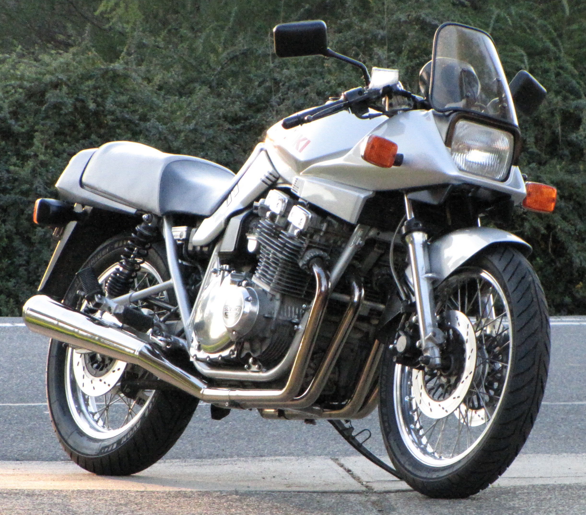 Suzuki Katana 1100 wire wheel